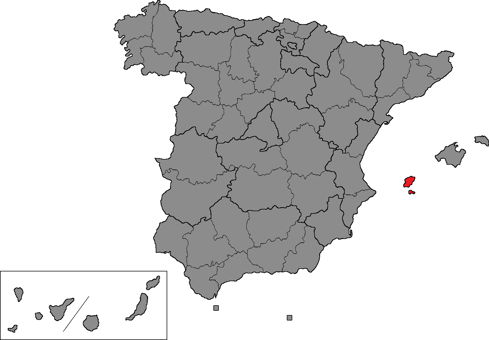 Spanish Senate district of Ibiza-Formentera.